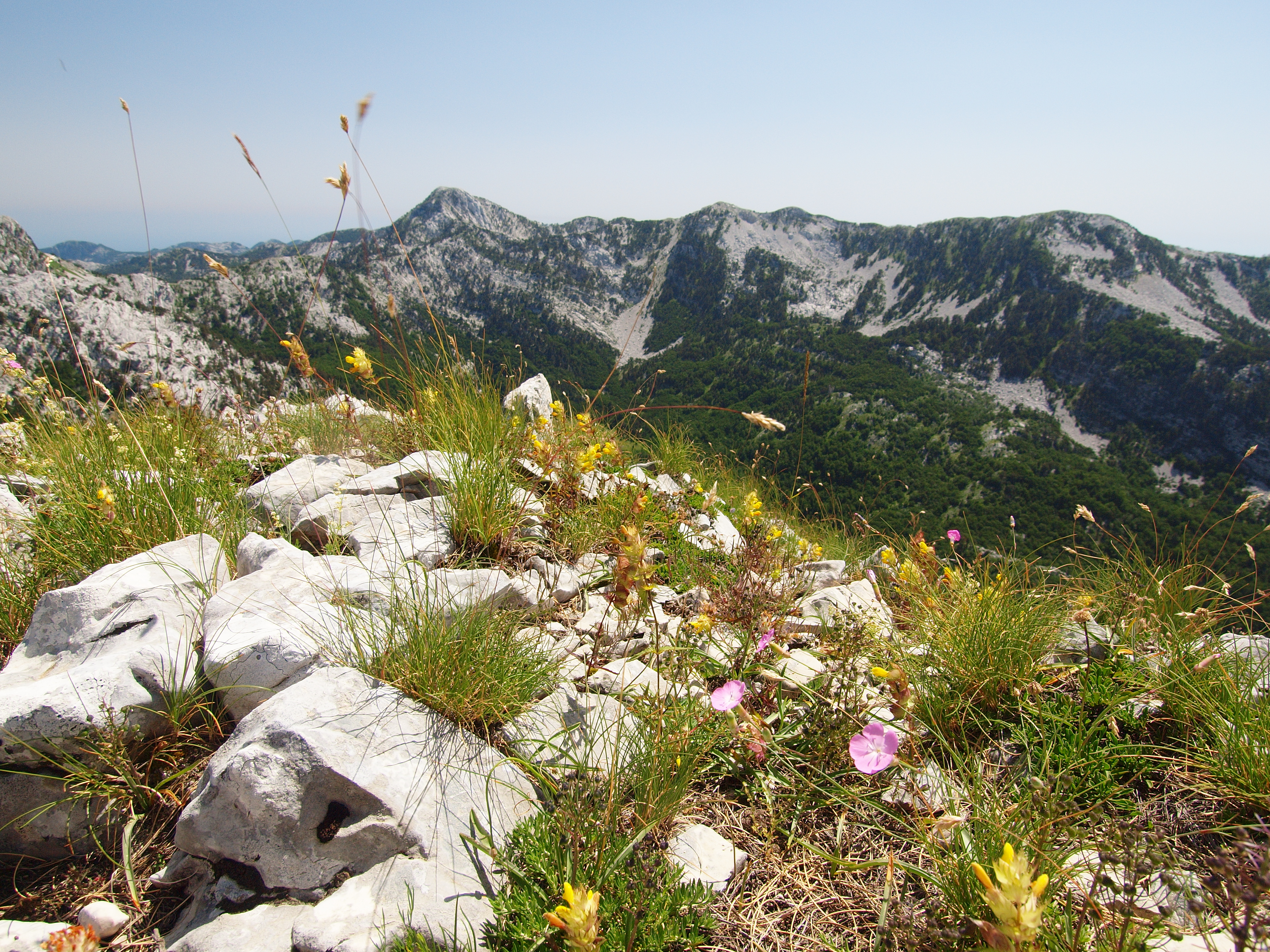 Alpiner Kalkrasen der Ordnung Oxytropidion dinaricae mit den Assoziationen Carici-Edaianthetum caricini und Edraiantho -Festucetum pacicianae